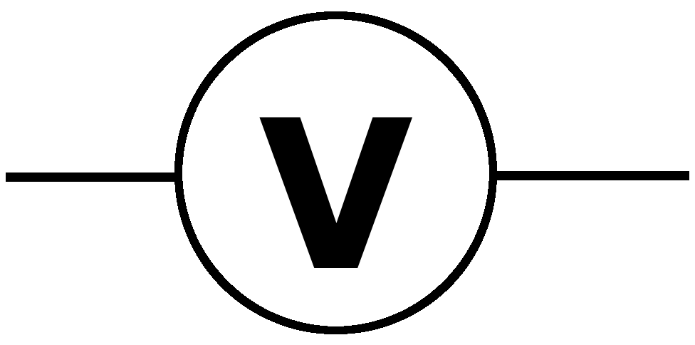 The Voltmeter symbol for electric schema